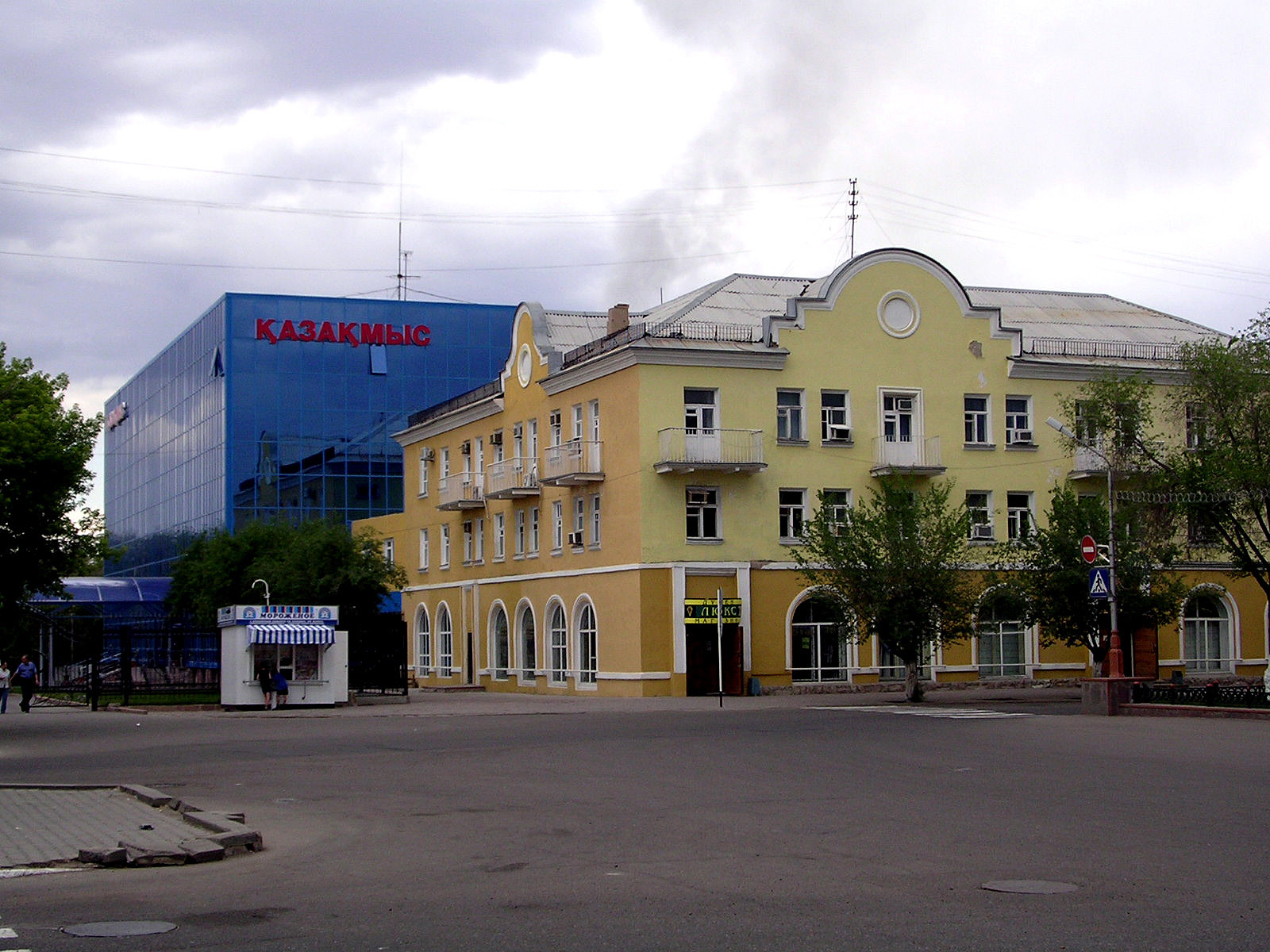 City of Zhezkazgan, Metallurgy-Worker Square